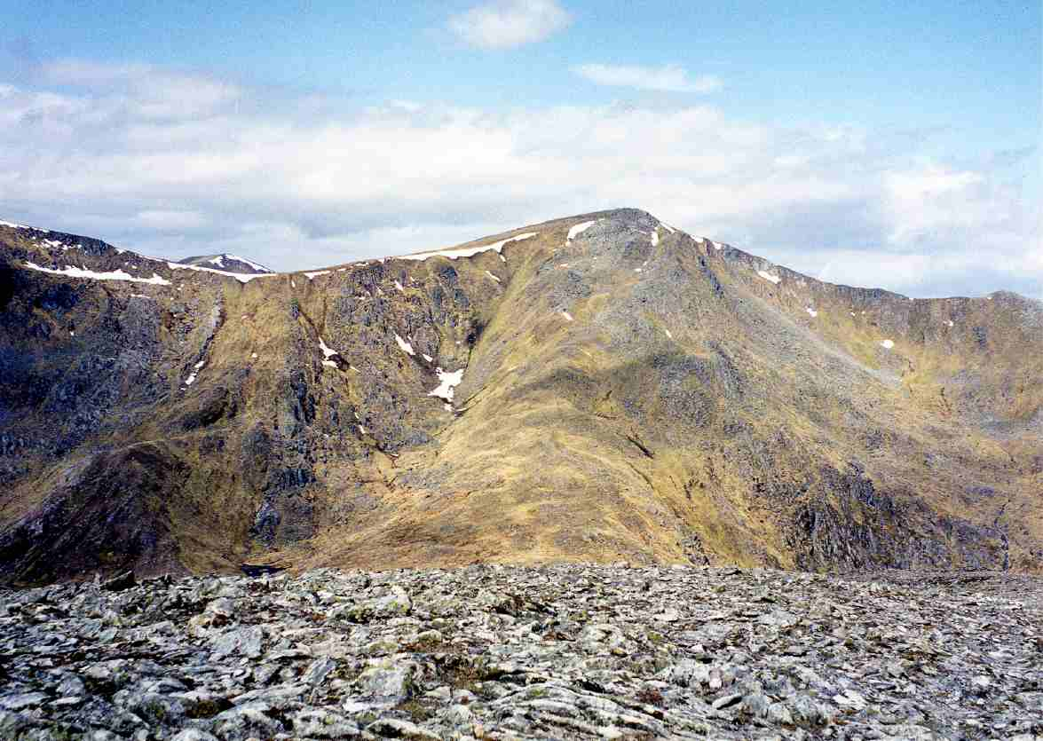 Sgurr na Lapaich seen from Càrn nan Gobhar, 2 km to the south-east. Personal picture taken by Mick Knapton